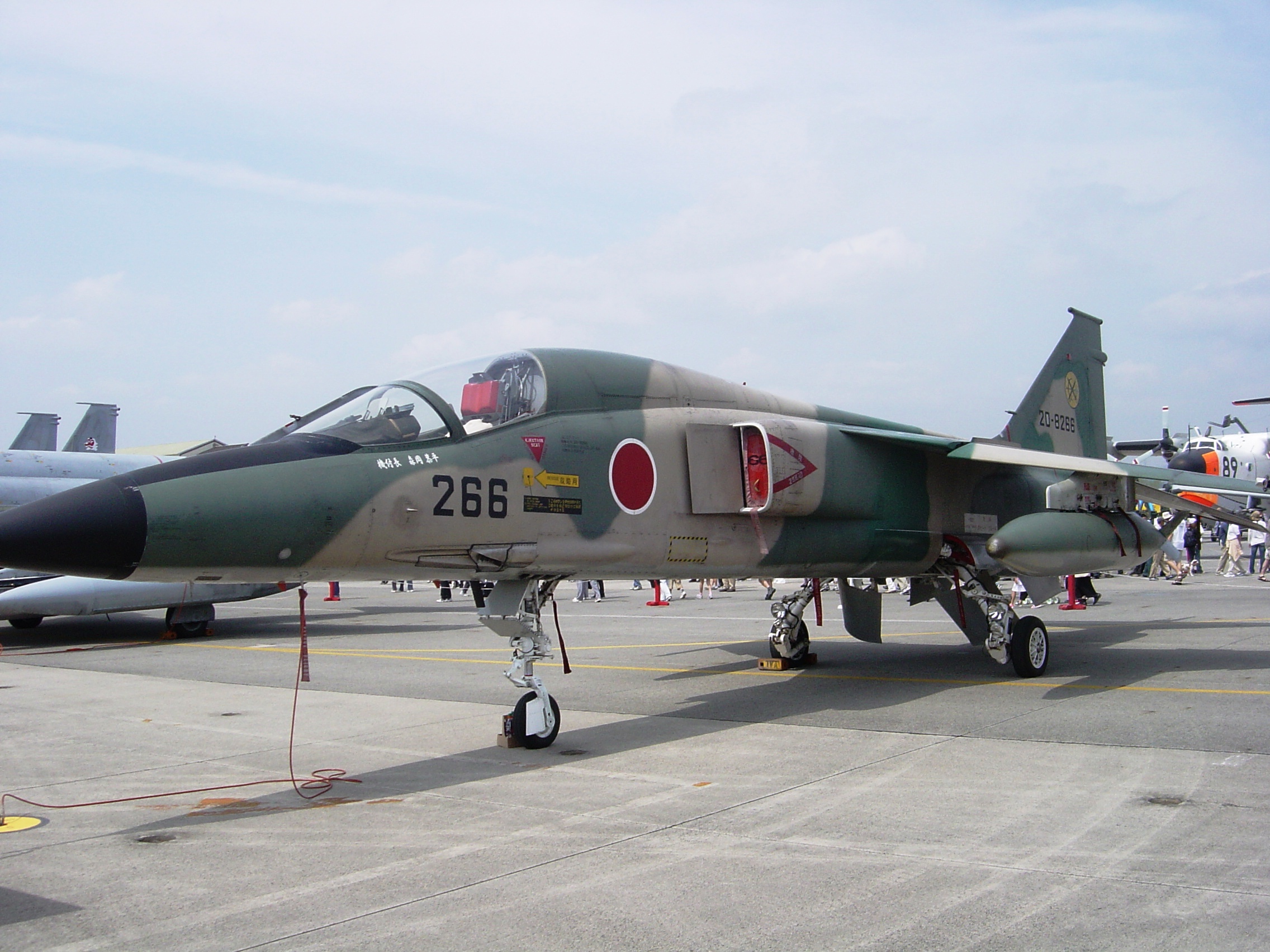 F-1Support fighter(F-1 (支援戦闘機)),The U.S. military Iwakuni base